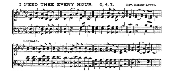 "I Need Thee Every Hour", words by Annie Hawks, music by Robert Lowry